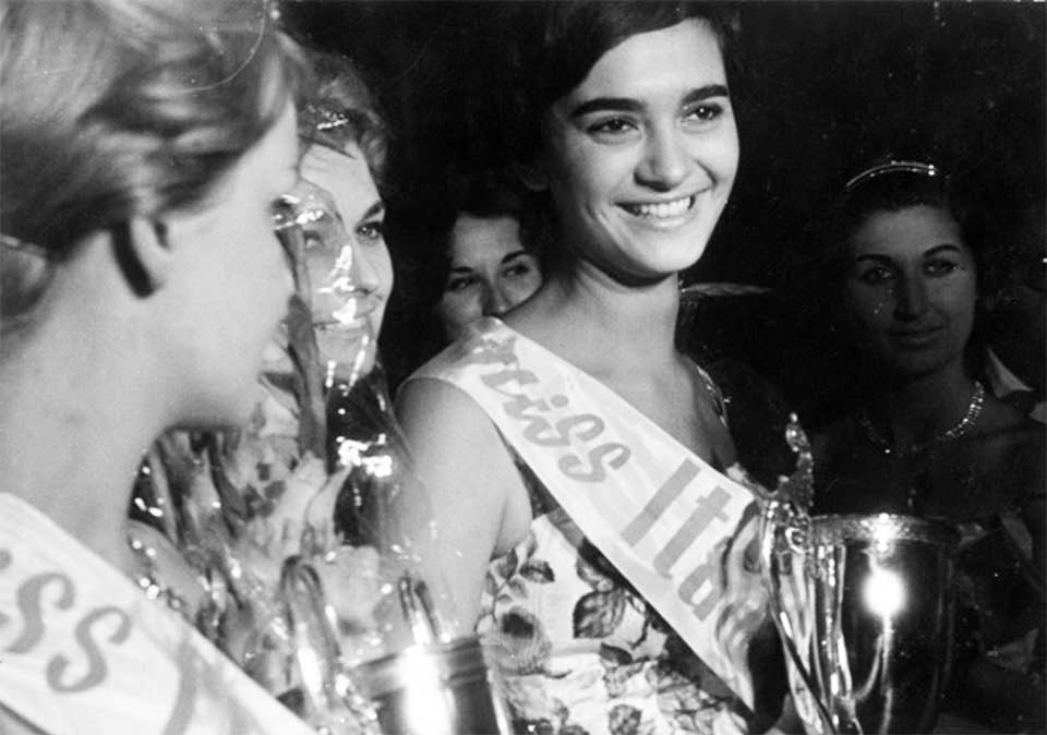 Marisa Jossa, Miss Italia 1959